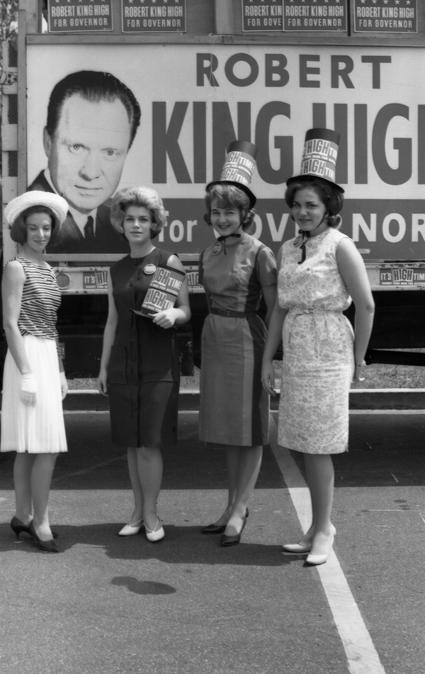 Robert King High supporters in Tallahassee in 1964